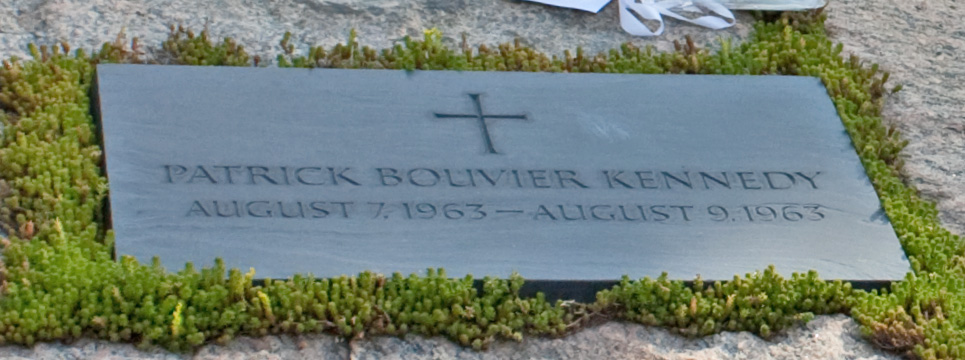 Gravestone for Patrick Bouvier Kennedy in Arlington National Cemetery.